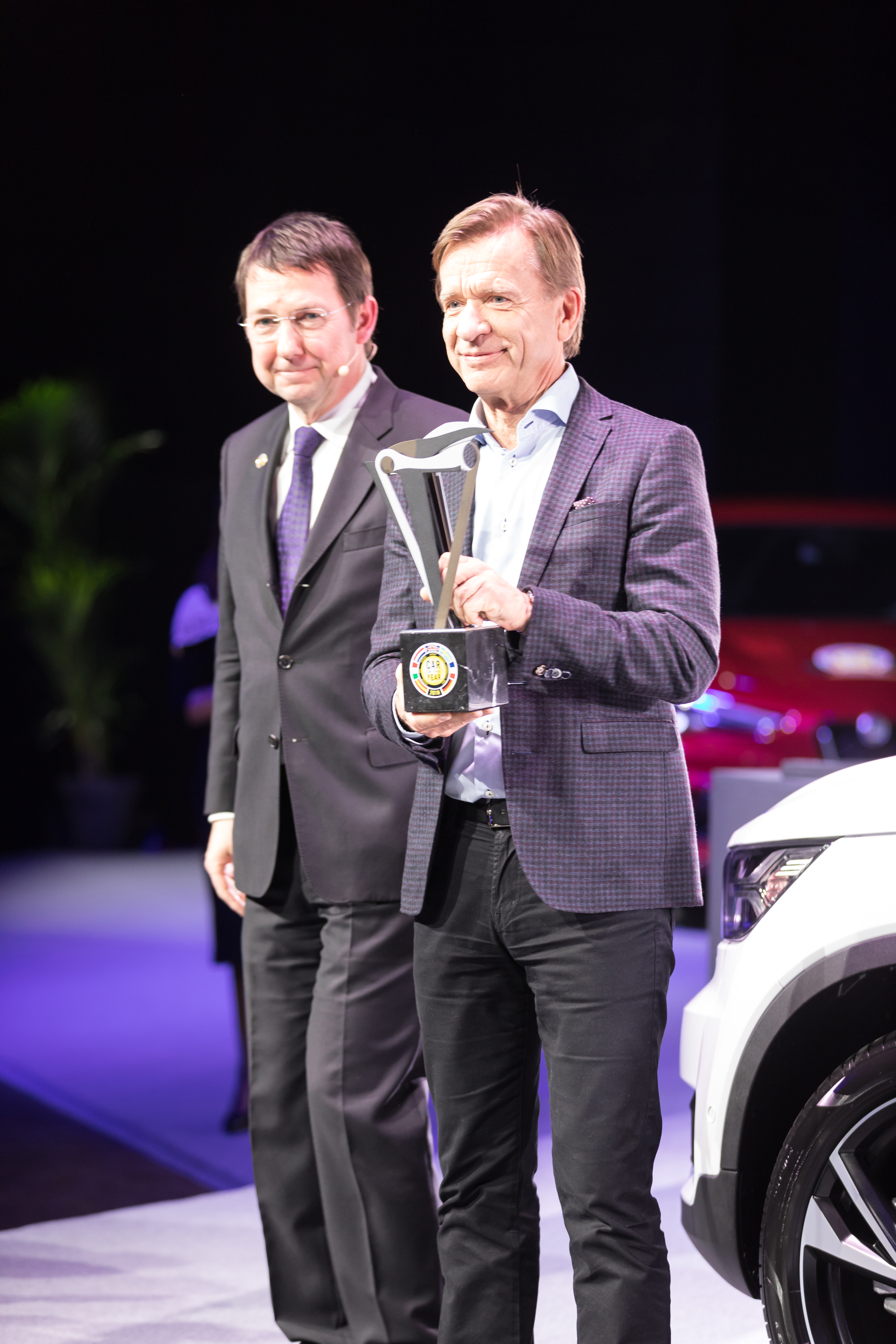 Håkan Samuelsson at COTY 2018